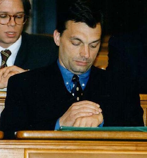 /as per the original